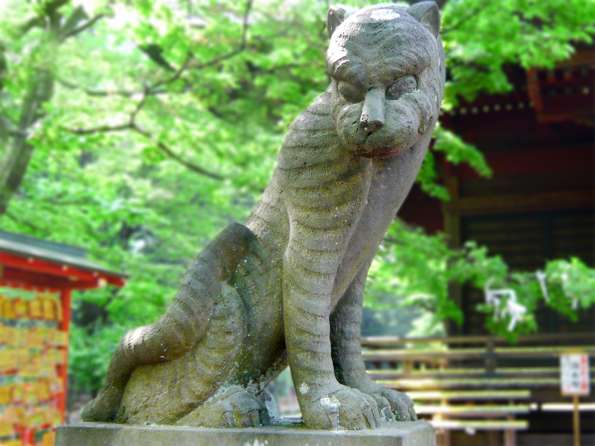 Koma-tora, a pair of statues of guardian tigers, - Ungyō (left), at Tamon'in temple in Tokorozawa, Japan.